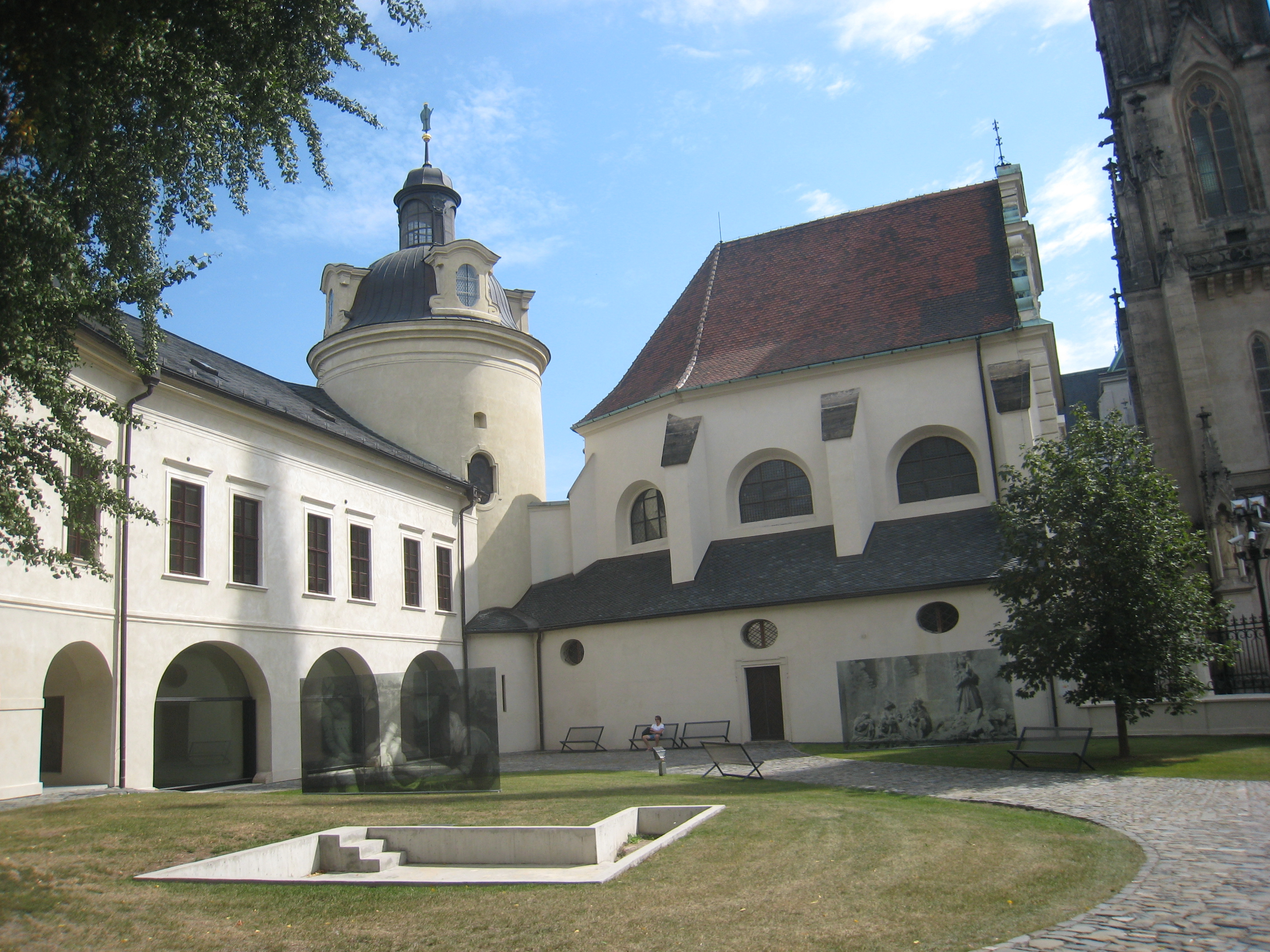 Former episcopal Palace in Olomouc. Now it hosts Archidiocesan Museum.